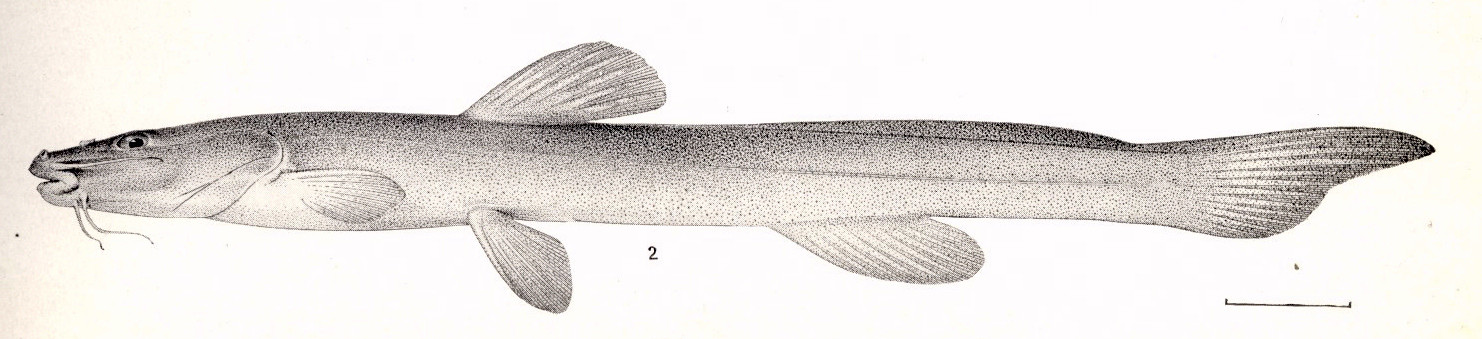 Imparfinis hollandi Hasenman. Type Subject: Catfishes Tag: Fish